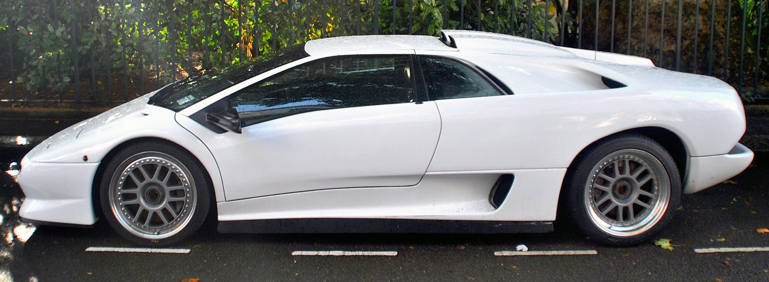 1 of 31 Lamborghini Diablo SV-Rs produced - a rare road-going example of the factory racing special